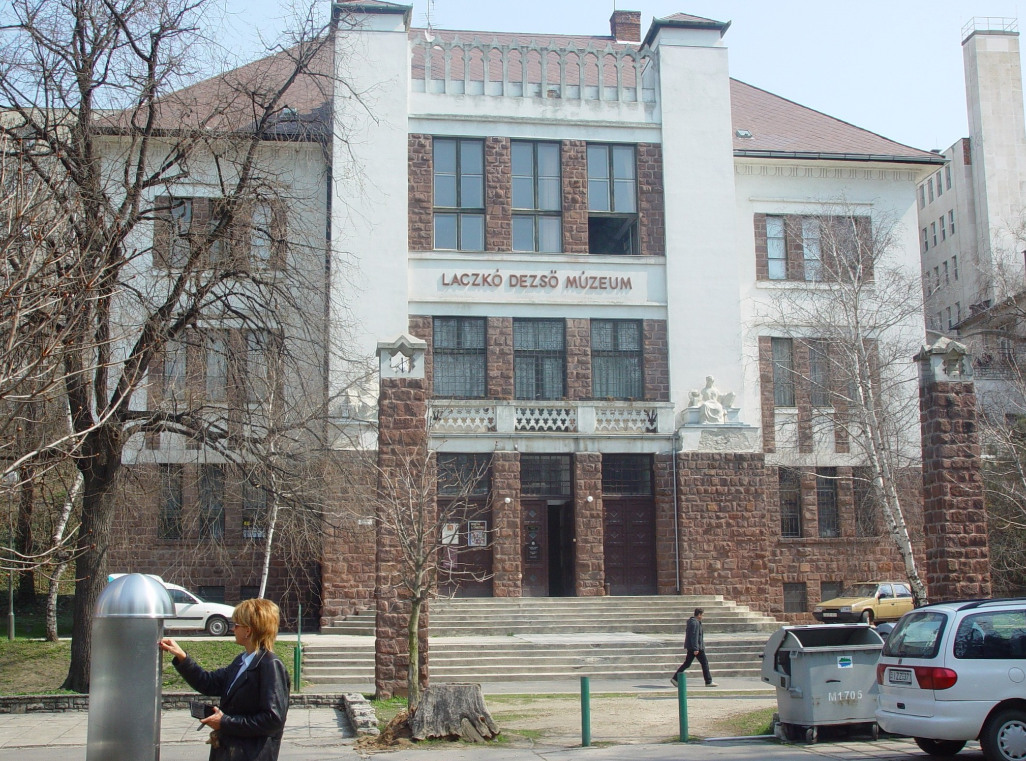 "Lackó Dezső Museum", Veszprém